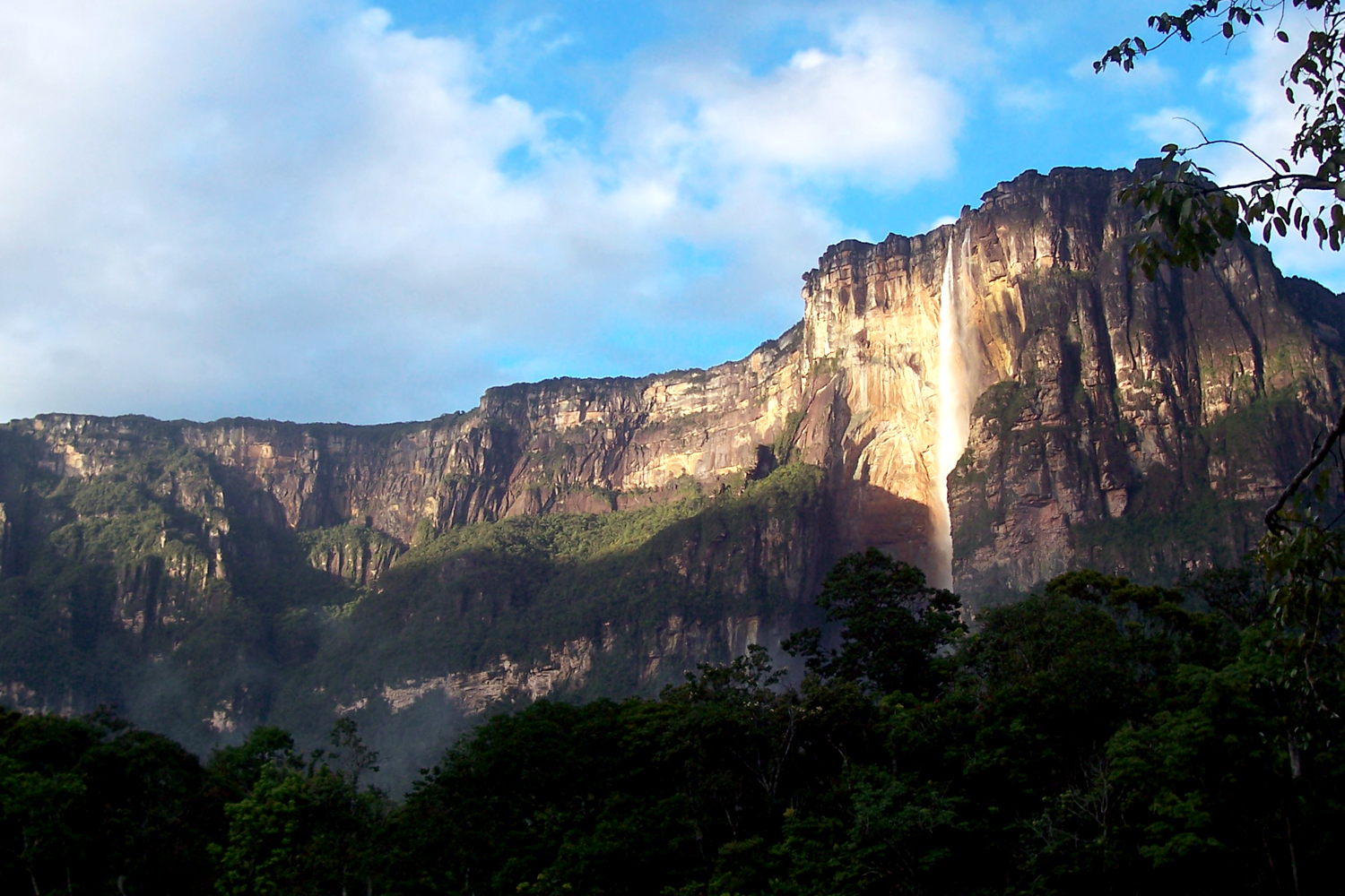 Angel Falls, Bolívar State, Venezuela.